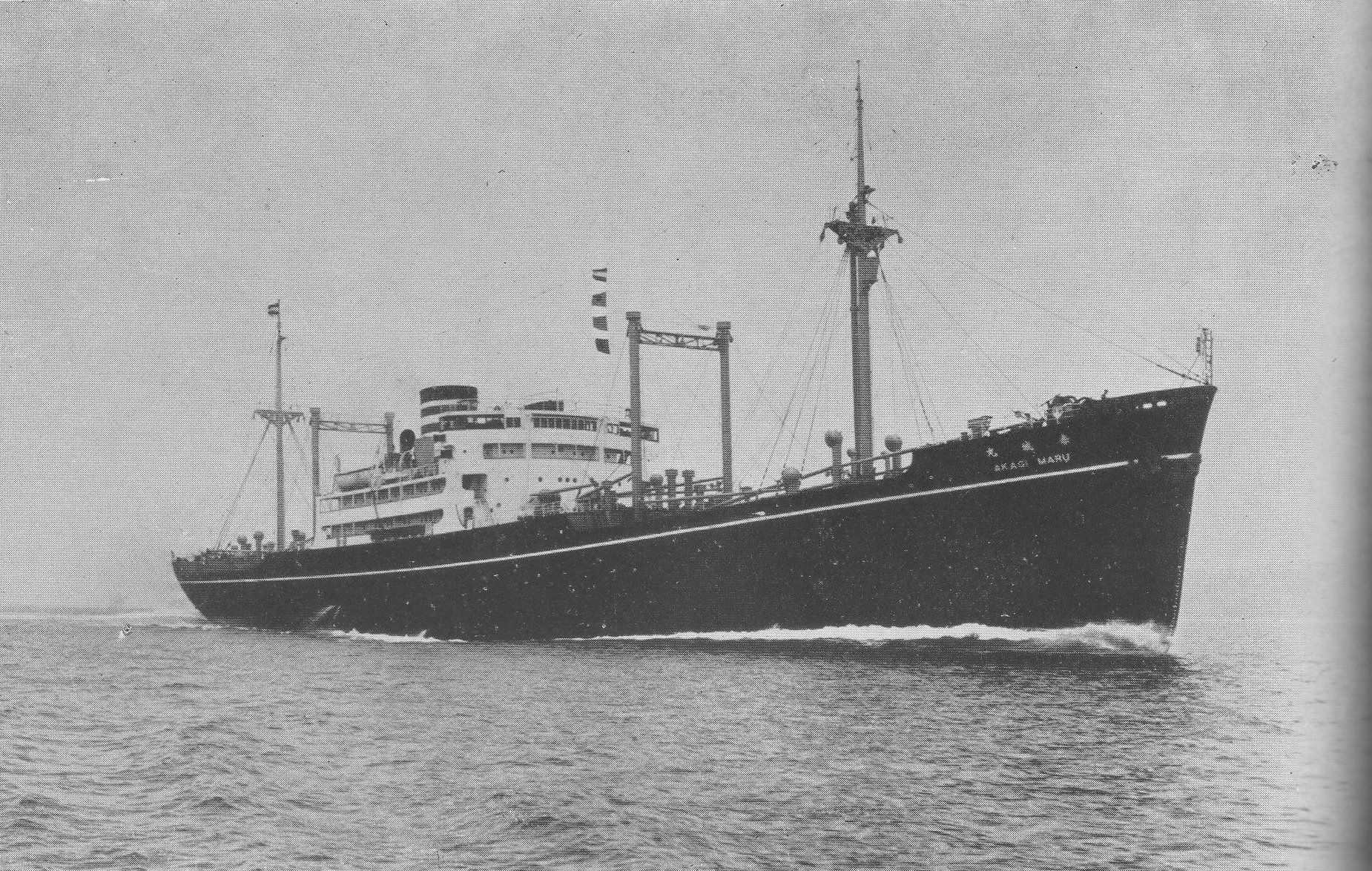 NYK Line "Akagi Maru"(Auxiliary cruisers of Japan)